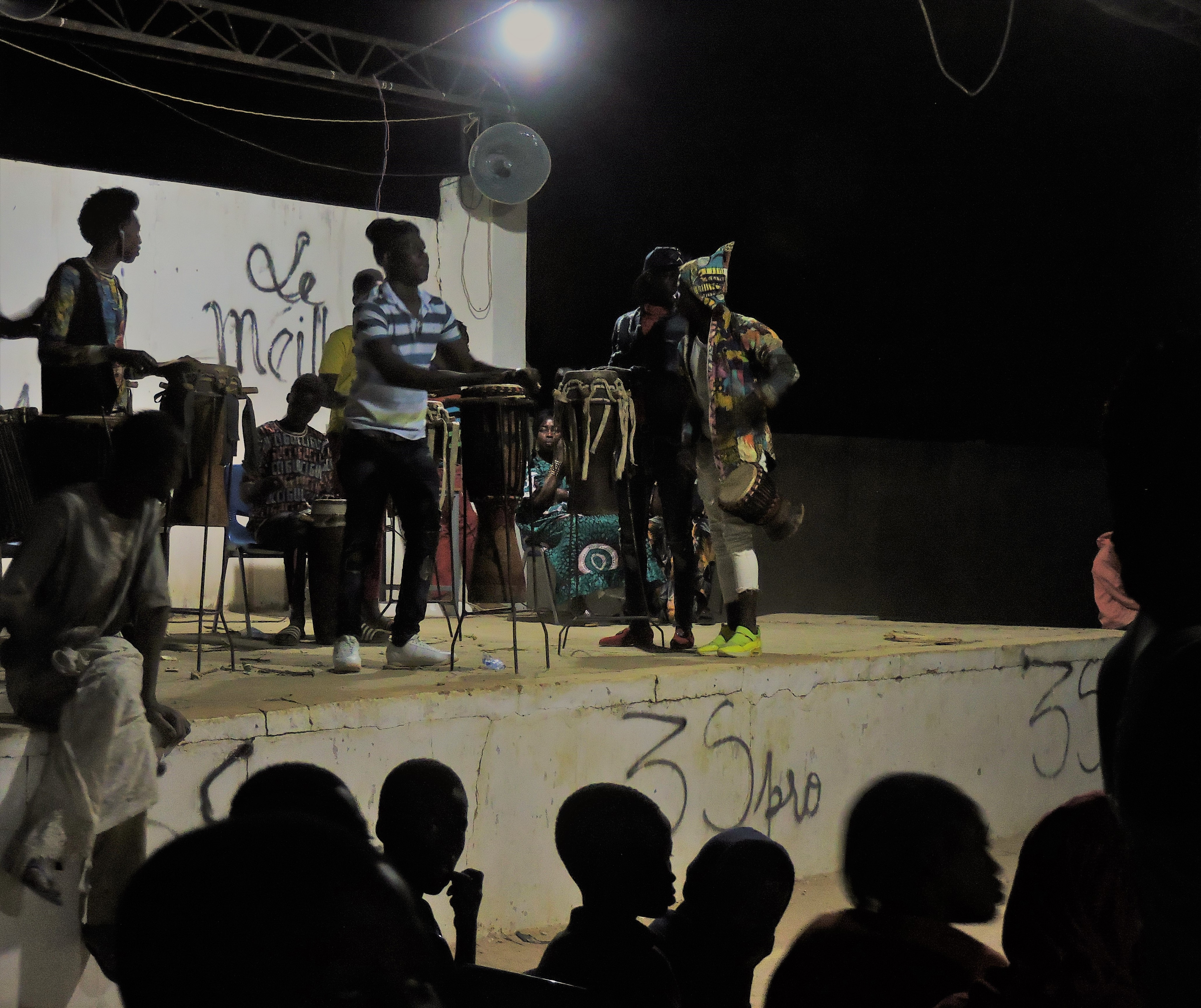 This is an image with the theme "Play" from: Senegal